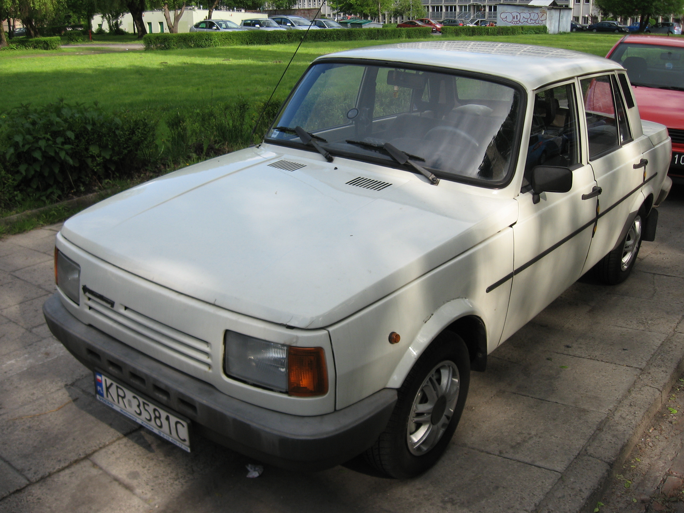 Wartburg 1.3 on Oleandry street in Kraków.